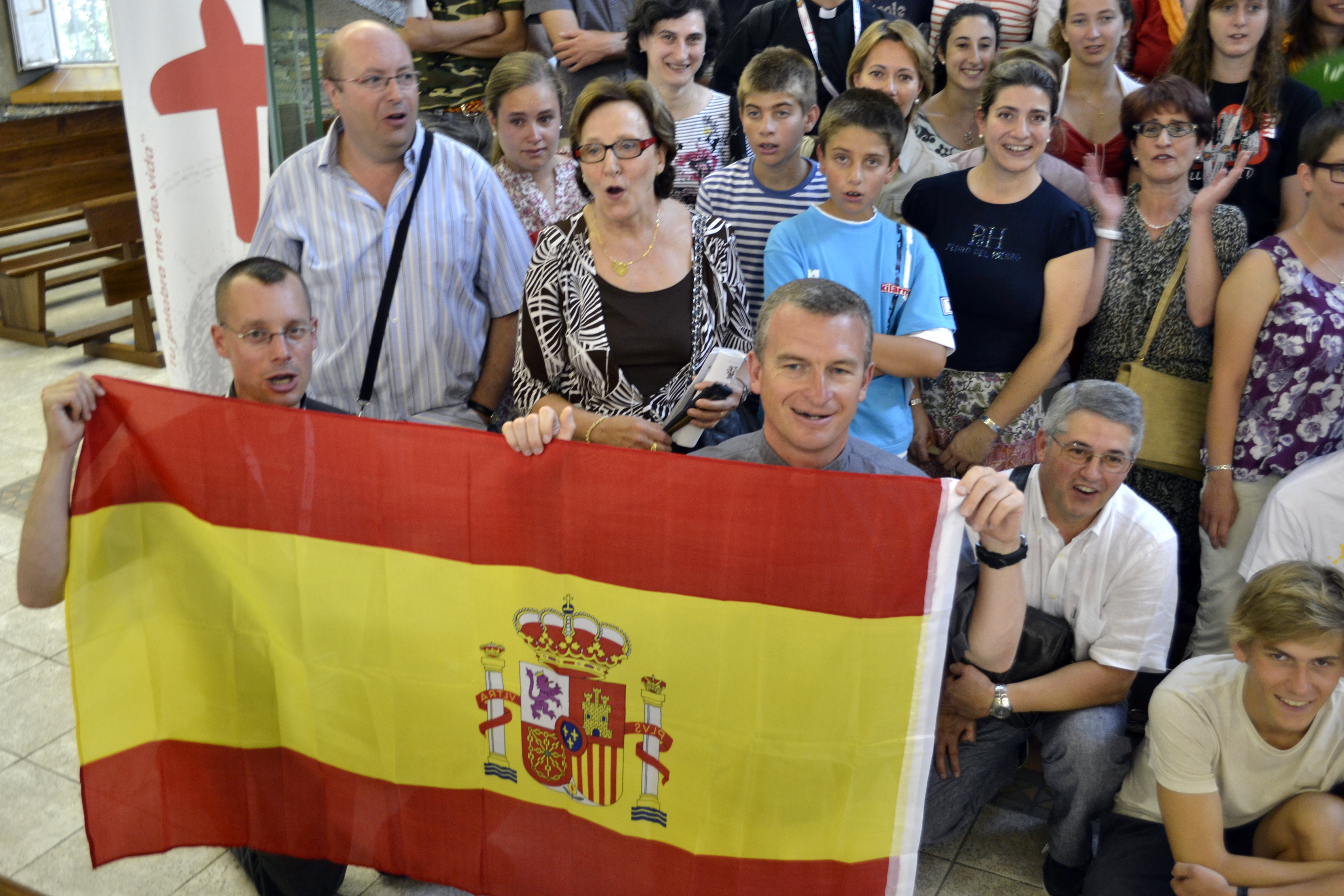 World Youth Day 2011 pilgrims.